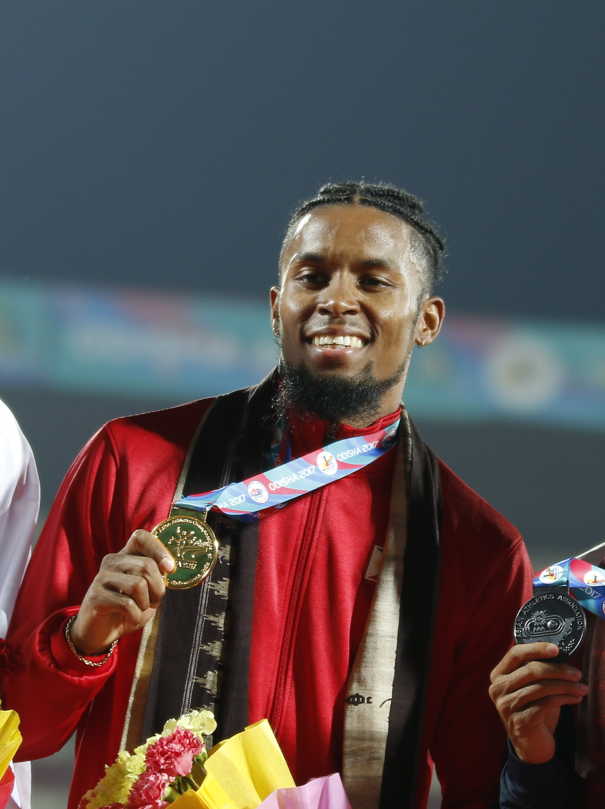 Athletes during 22nd Asian Athletics Championships in Bhubaneswar.